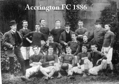 Picture of a squad of defunct English Accrington FC.